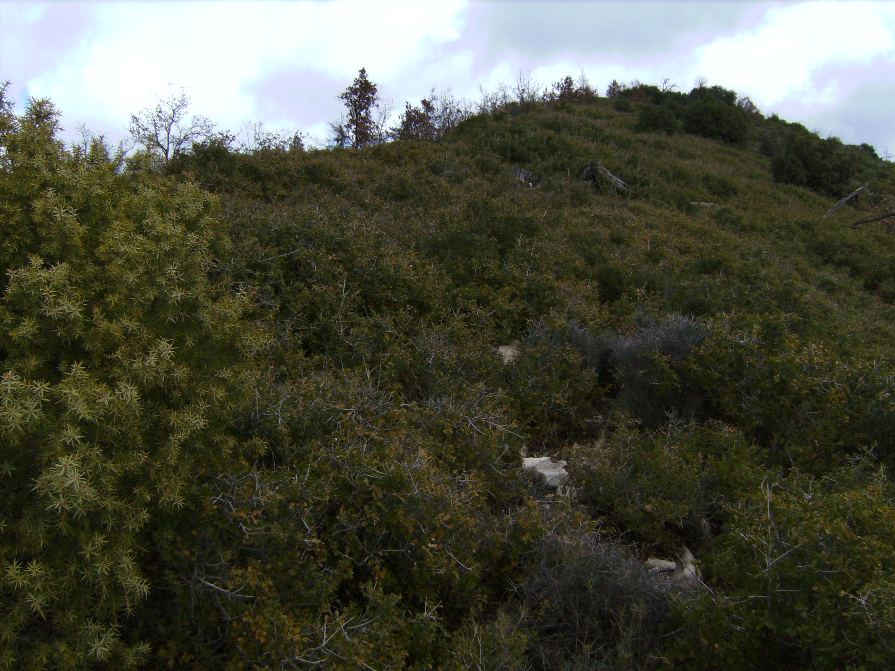 A Garrigue vegetation, Tossal mountain, Castelltallat, Catalonia. At left a Juniperus oxycedrus plant in front "garrics" (Quercus coccifera) plants (dominant) . At top Quercus cerrioides oaks.